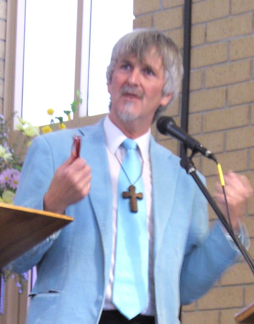 Rev. John L. Bell of the Iona community and the Church of Scotland. Picture at Kippax Uniting Church, Canberra, Australian Capital Territory, 2009-10-18.